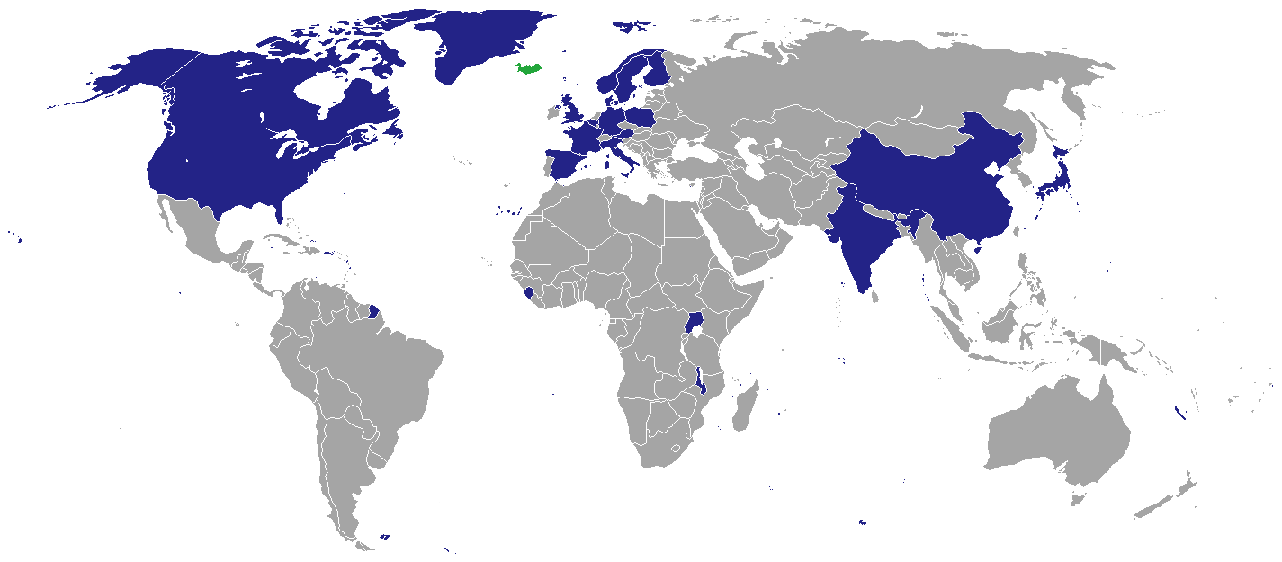 Countries with Icelandic embassies Iceland Embassy